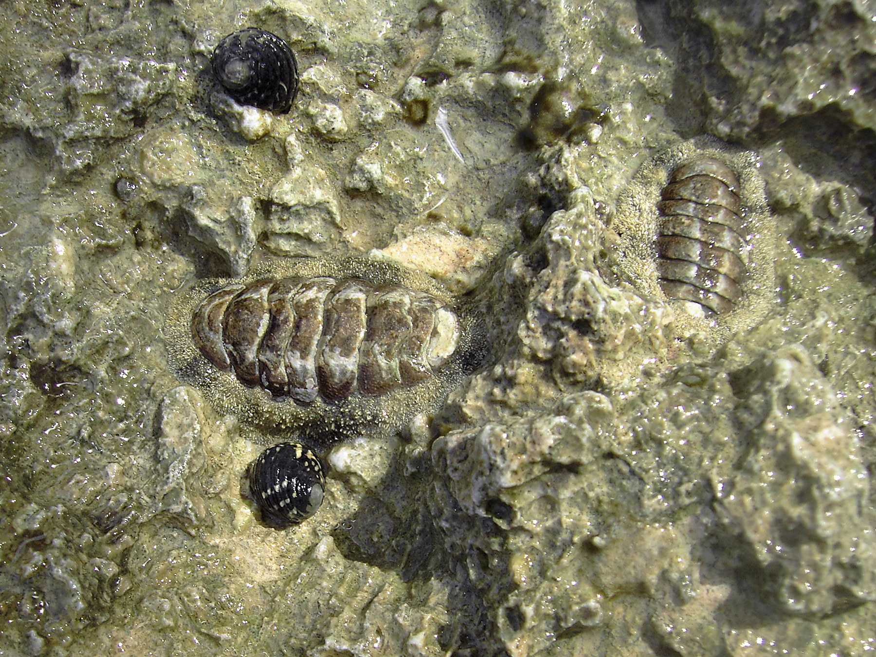 Two chitons and two' Checkered nerites on a rock at a medium high tidal level in Le Gosier, Guadeloupe, W.I. Length of largest individual about 5 cm.